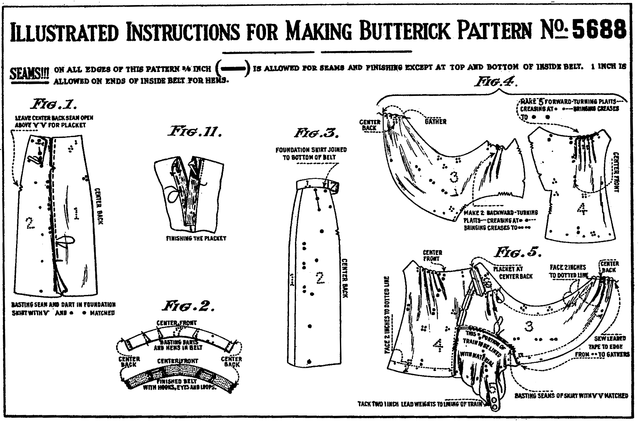 Front of "Deltor" (instruction sheet) for Butterick pattern 5688, a skirt for an evening dress, extracted from patent US1313496 (patent for instruction sheet). For back, see "Deltor for Butterick 5688 from patent US1313496 verso.gif" For schematic of pattern pieces, see "Schematic for Butterick 5688 from patent US1313496.gif"